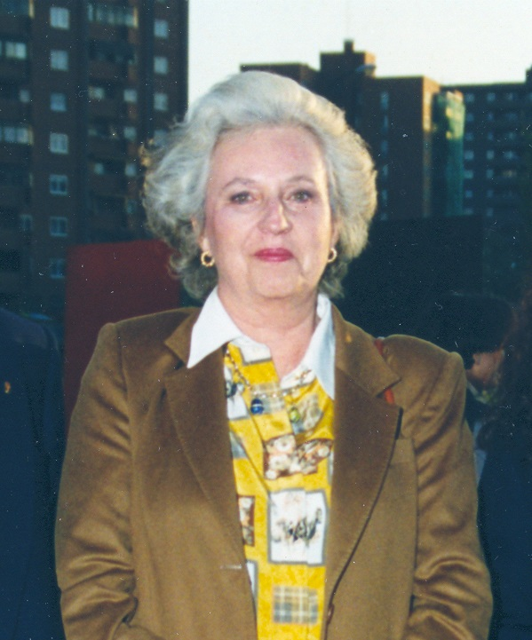 Pilar de Borbón.